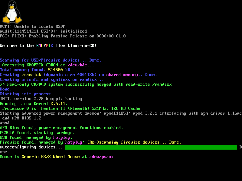 I took a screenshot of Knoppix 3.8 booting in the QEMU emulator. The image shows the messages from Linux kernel and startup scripts, and Tux the penguin on top of the framebuffer virtual console.